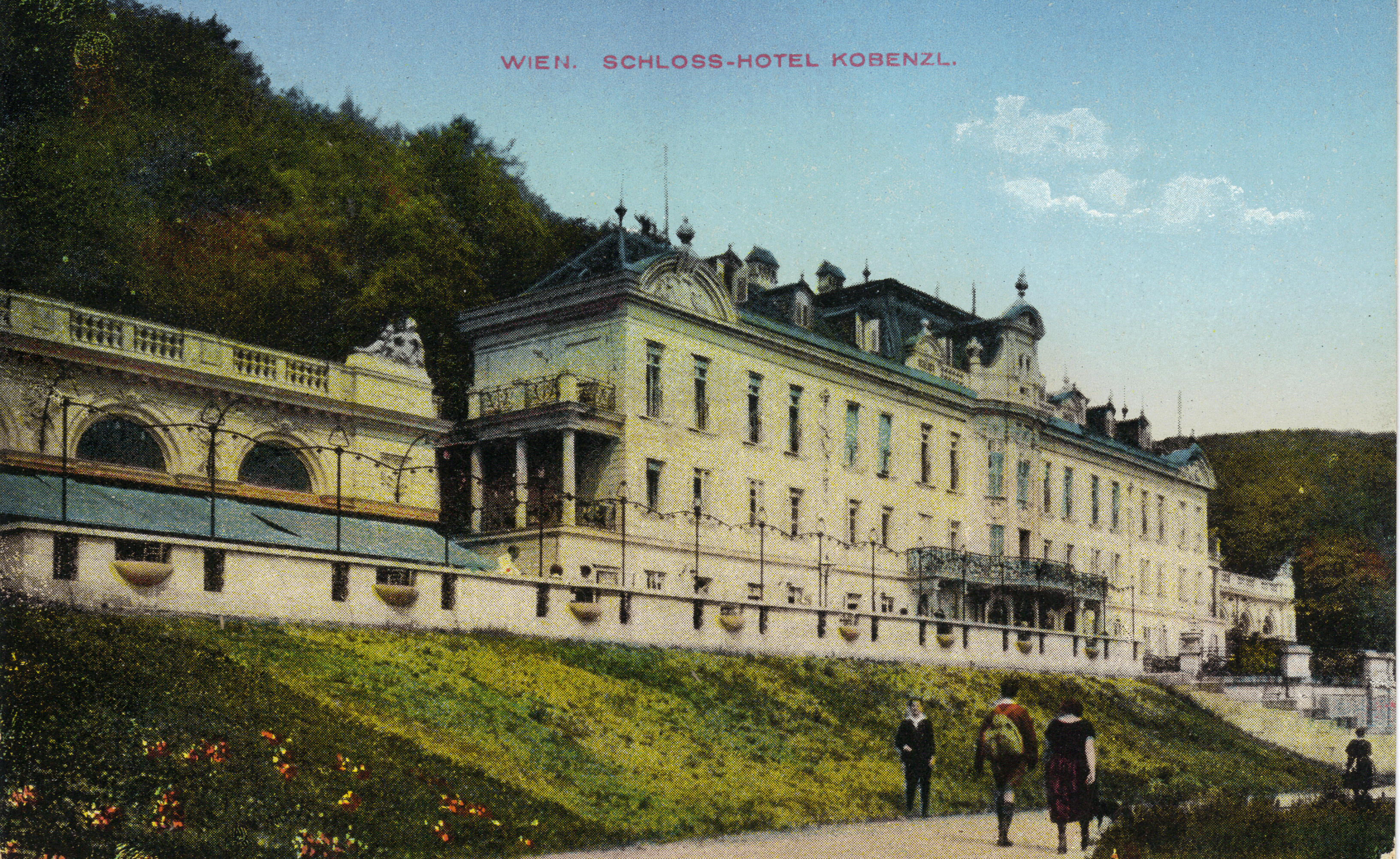 Picture postcard of Hotel Schloss Cobenzl (Vienna) from about 1905